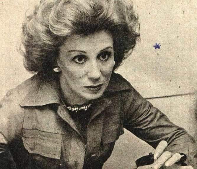 Nelly Raimond- periodista y locutora argentina